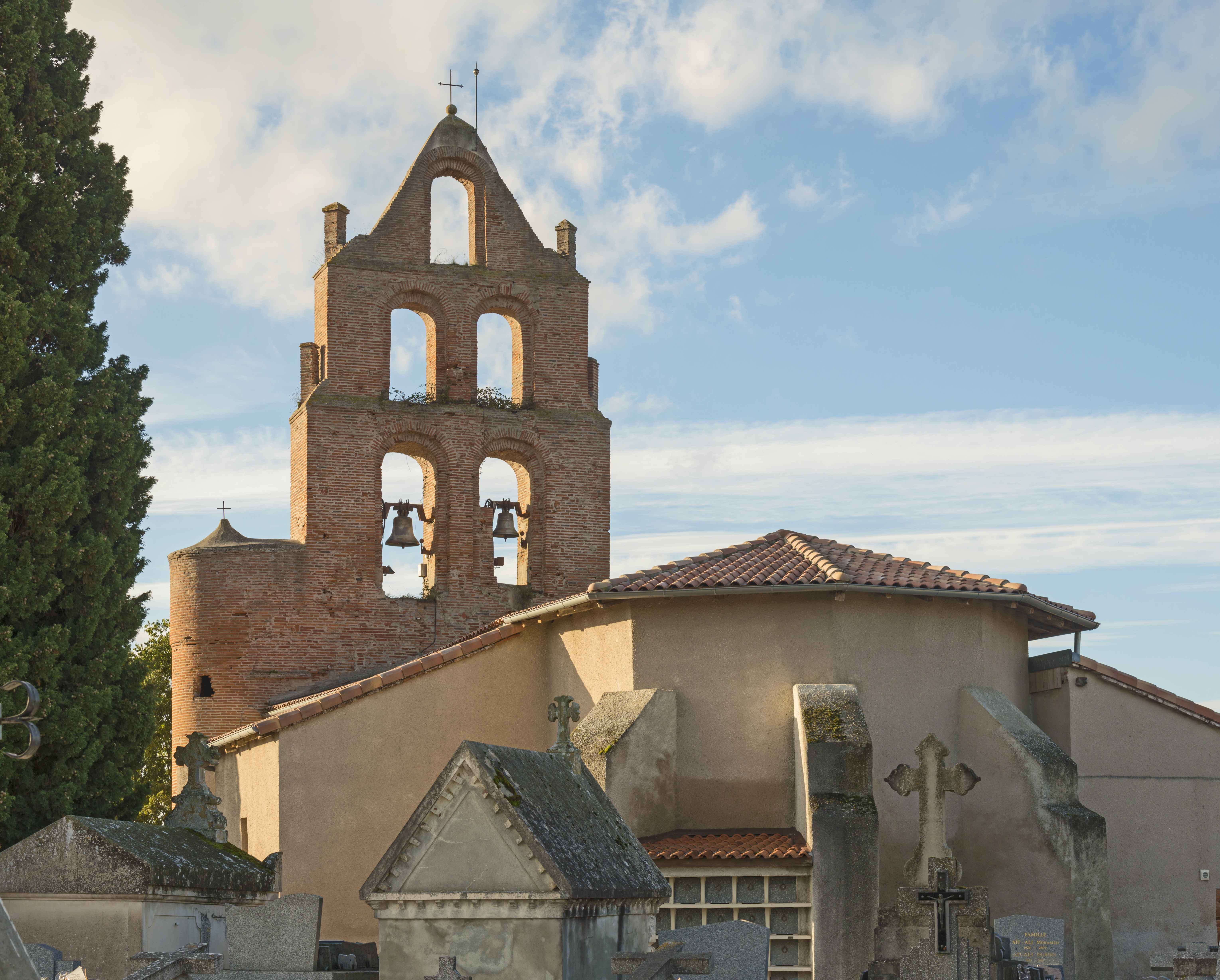 Le Born Haute-Garonne, France. The Holy Faith Church.